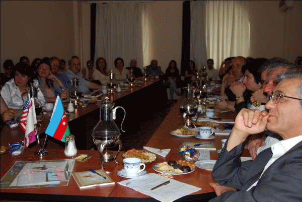 Assembly of Science and Art